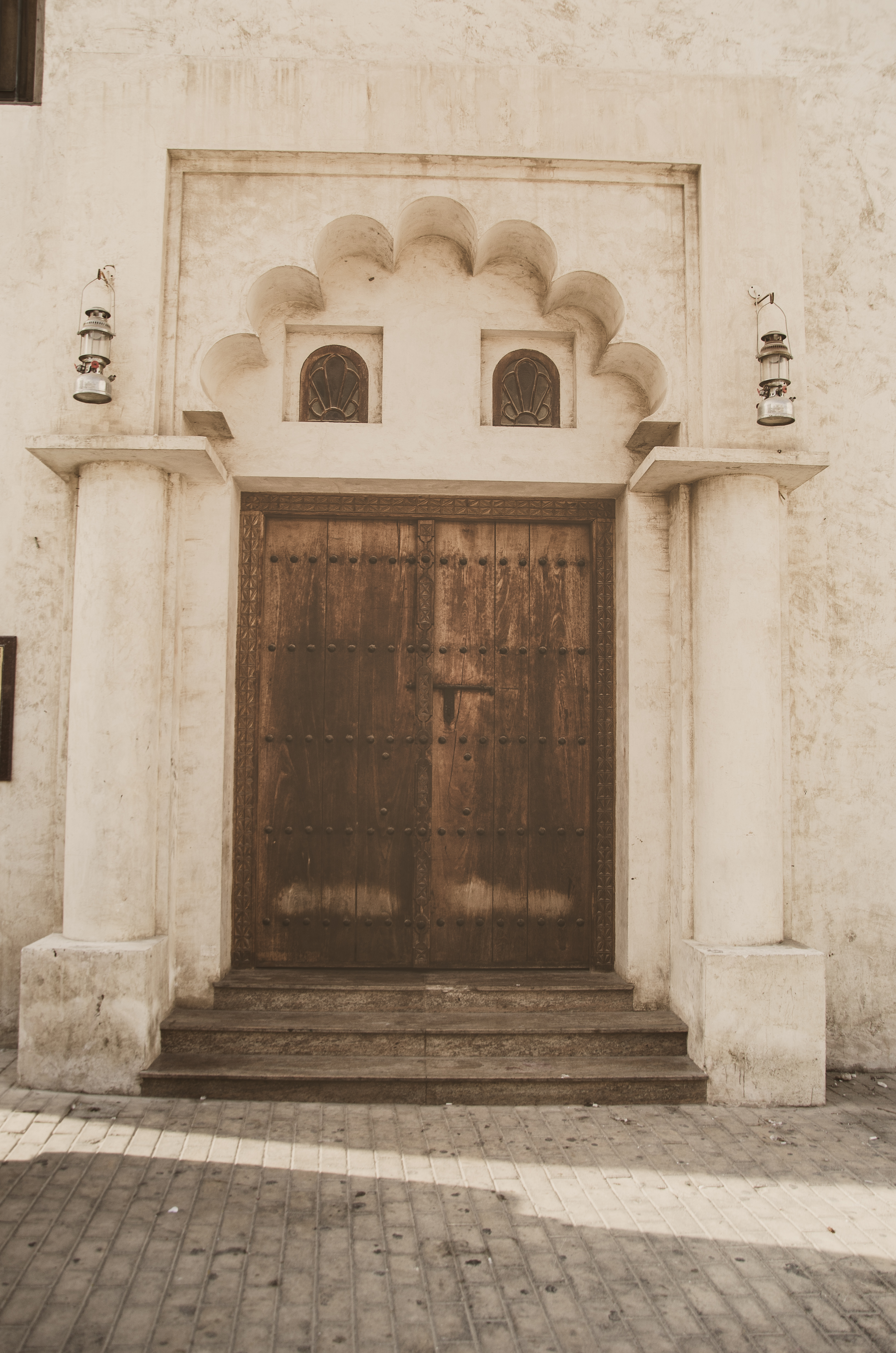 Heart of Sharjah and one of its museum doors